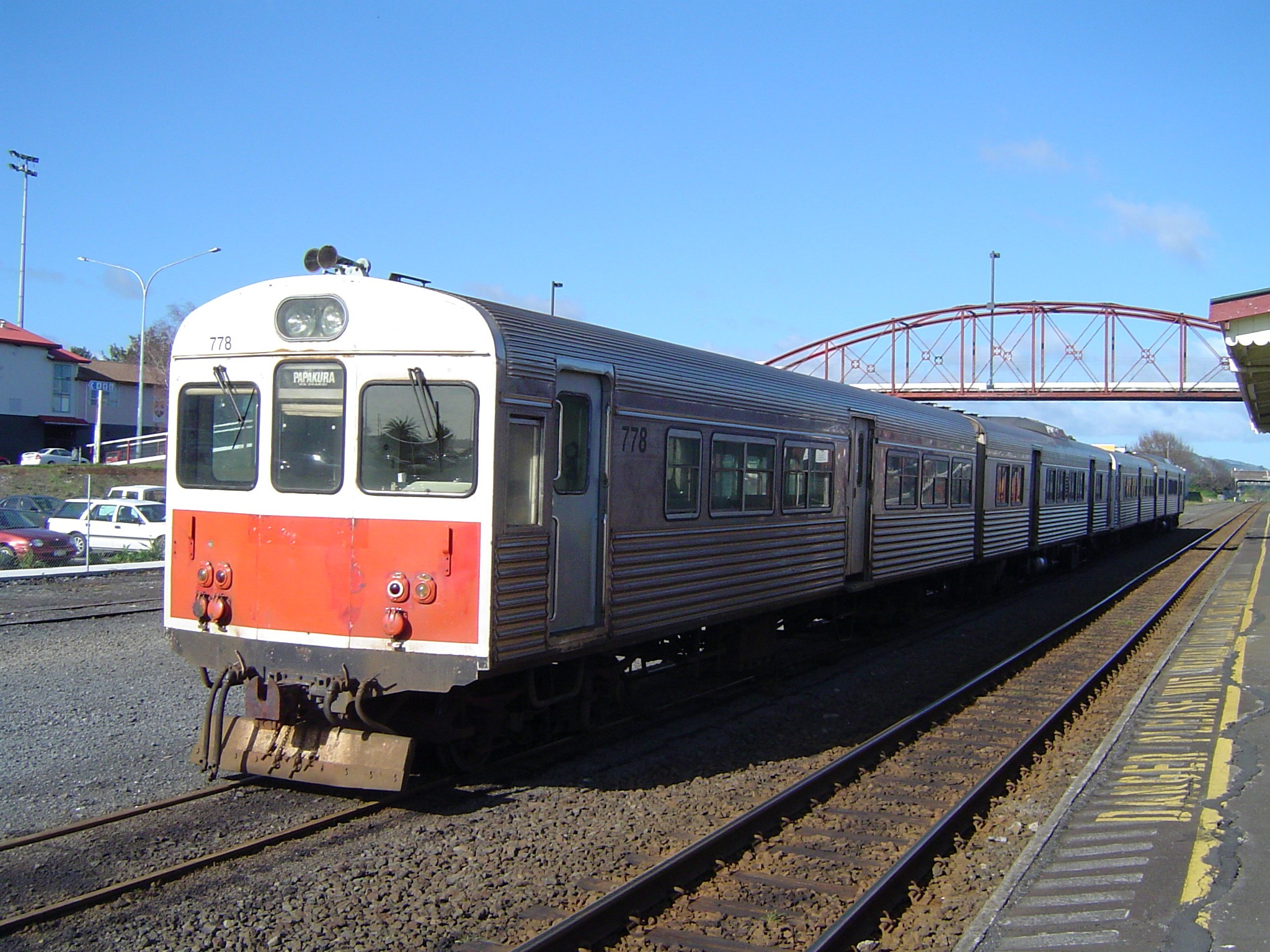 An unrefurbished ADK class DMU at Papakura Train Station, Auckland, New Zealand.